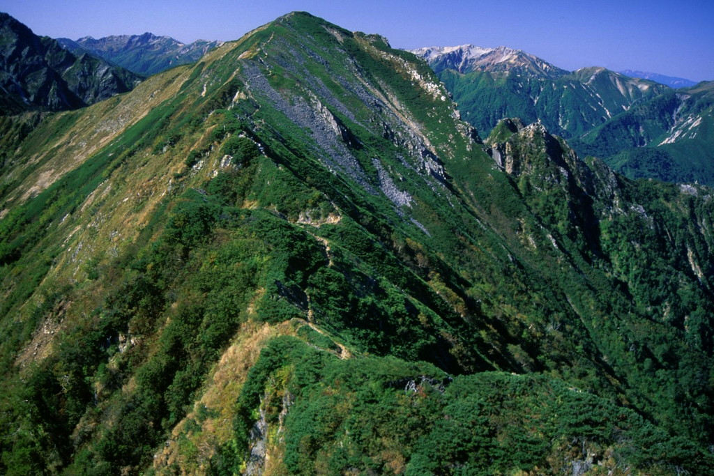 Mount Akasawa seen from Mount Narusawa in Hida Mountains, Japan.